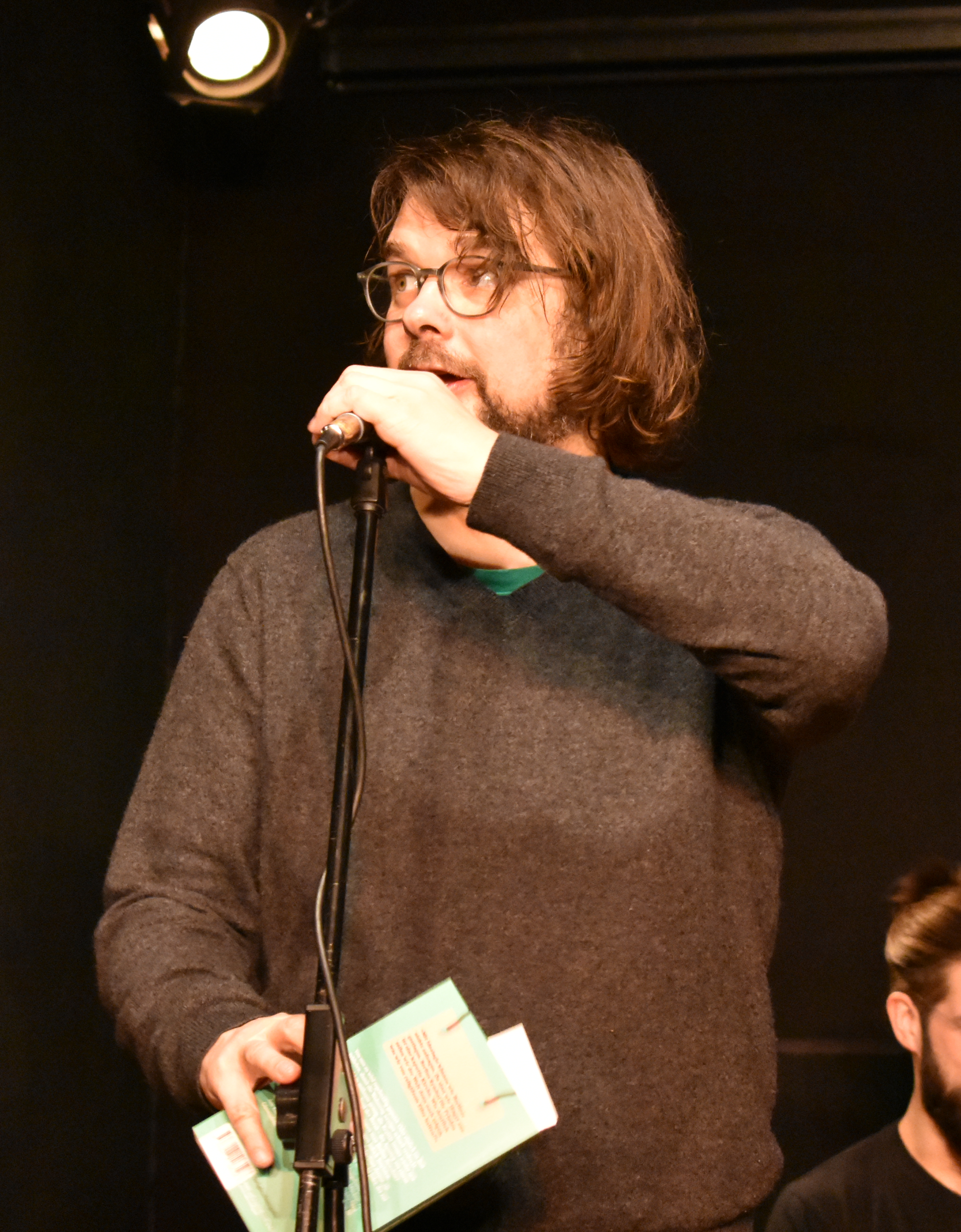 German author Thilo Bock reading on stage in Pankow, Berlin.